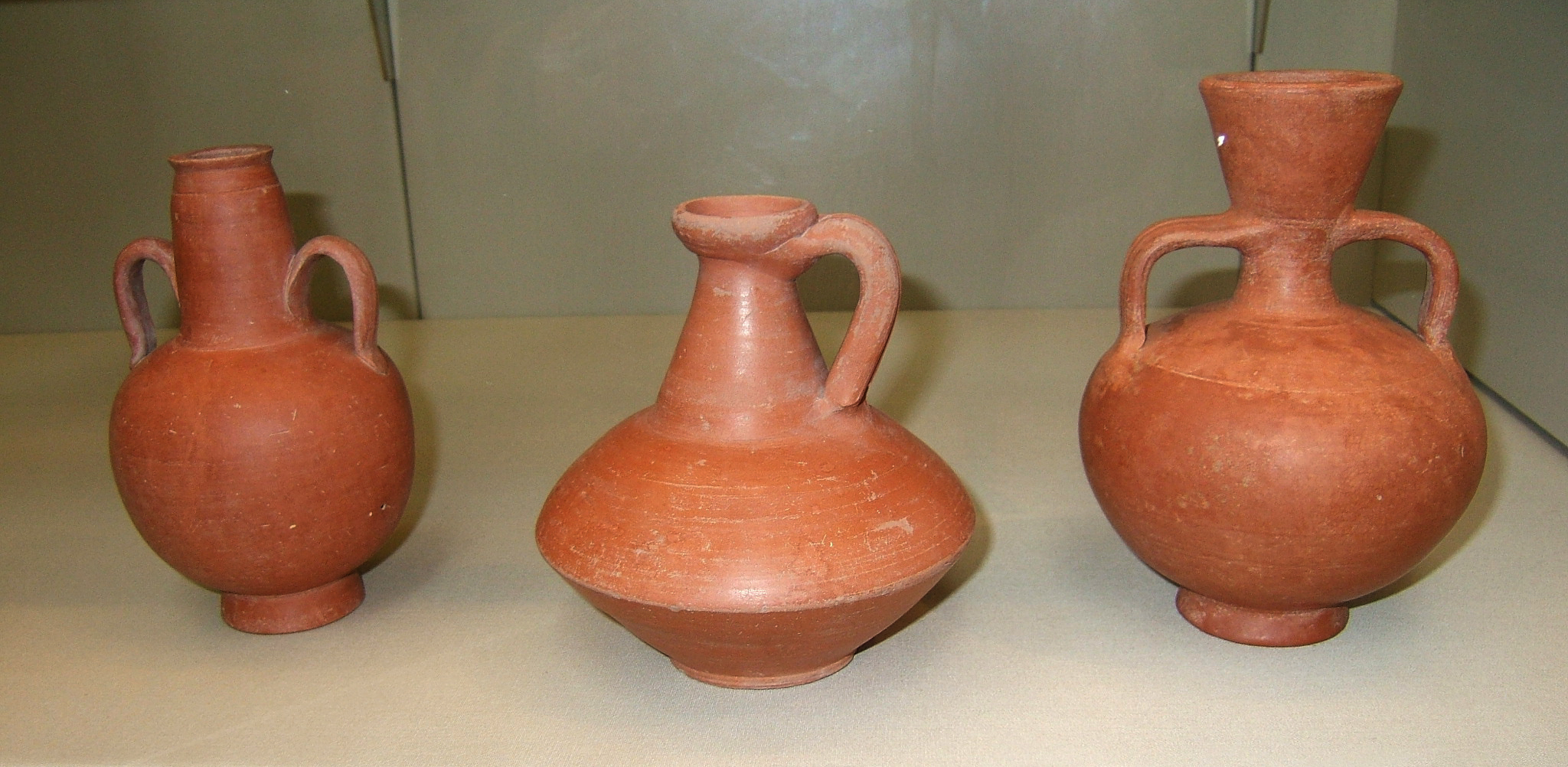 Three Roman vessels of African Red Slip ware, 2nd-4th C. AD. Height of pot on left 18 cm. British Museum, London. GR 1994.7-20, 3, 6 and 8.